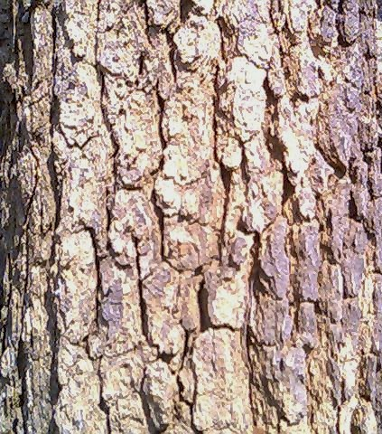 Bark of Albizzia lebbek tree ocurring in Southern Tropical Moist Deciduous Forests in Maharashtra, India.